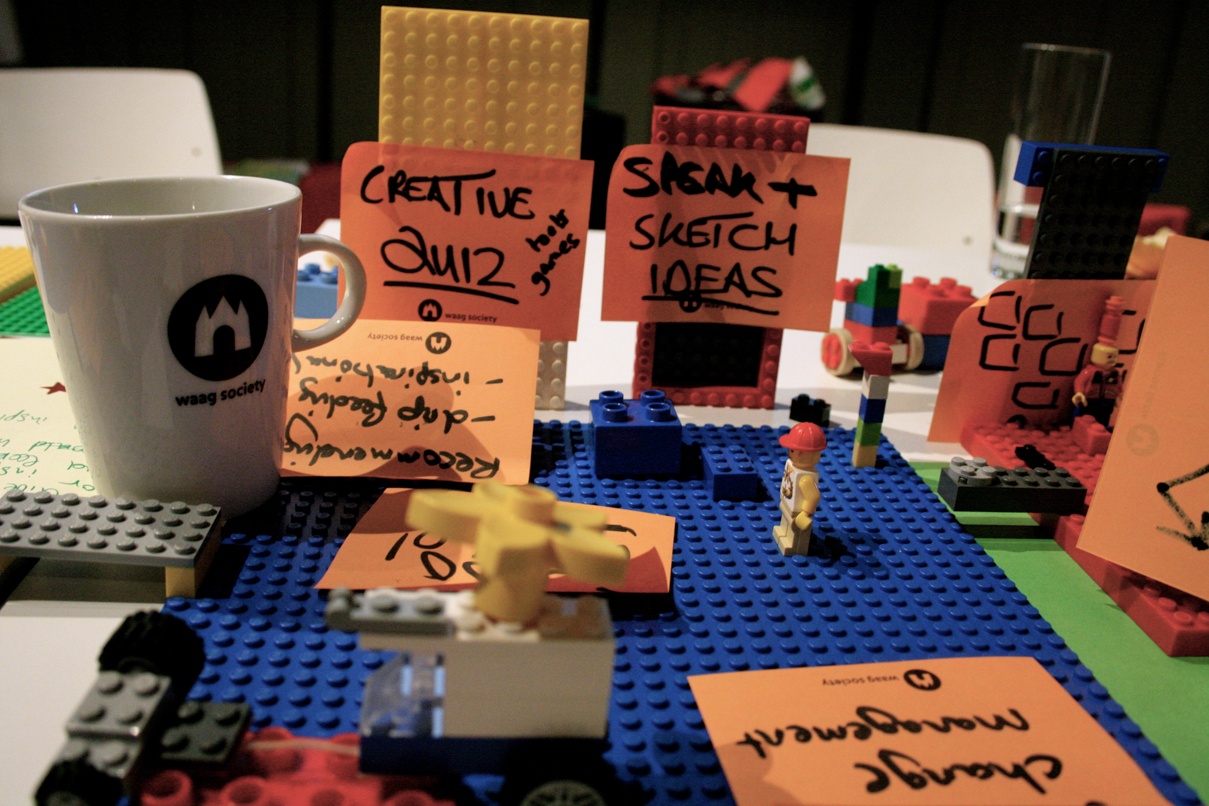 Gamification techniques picture